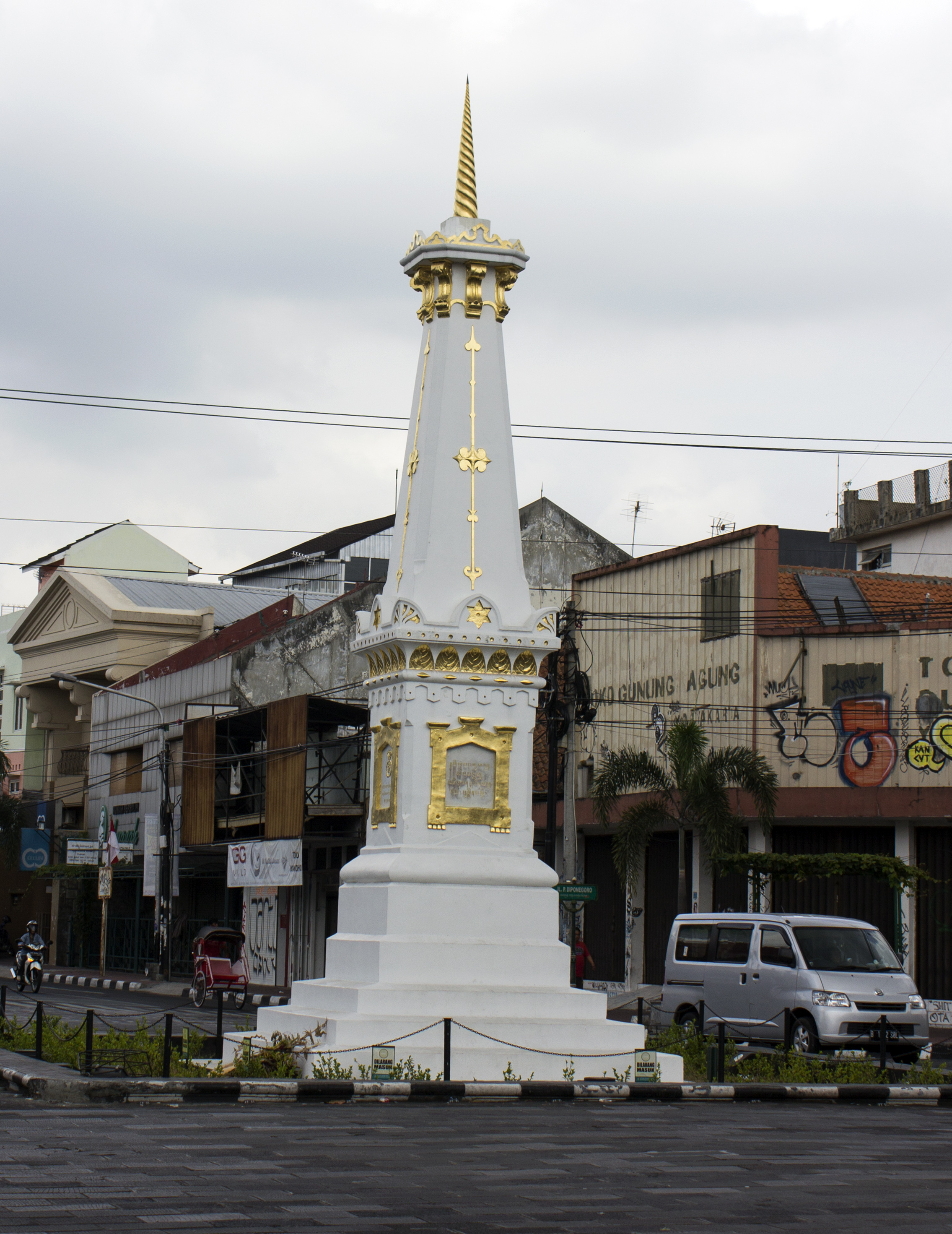 Tugu of Yogyakarta (intersection of Mangkubumi, Diponegoro, Sudirman, and Sangaji streets)